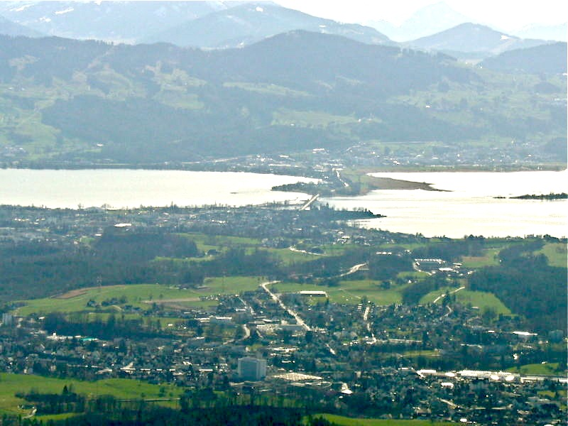 Seedamm bei Rapperswil-Jona, cantons of St. Gallen, Schwyz and Zurich, Switzerland. Picture taken from the top of the mountain Bachtel by Peter Berger. March 4, 2007.